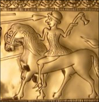 part of the Reproduction of Bronze belt plaque from Vace,Slovenia,Yugoslavia,400 BC, Hallstatt culture (Illyrian/Celt warriors),Identical to Illyrians, see "Early Roman Armies (Men-at-Arms) by Nicholas Sekunda and Richard Hook,1995,ISBN-10: 1855325136,Colour plates,The Venetic fighting system,Fifth century BC"